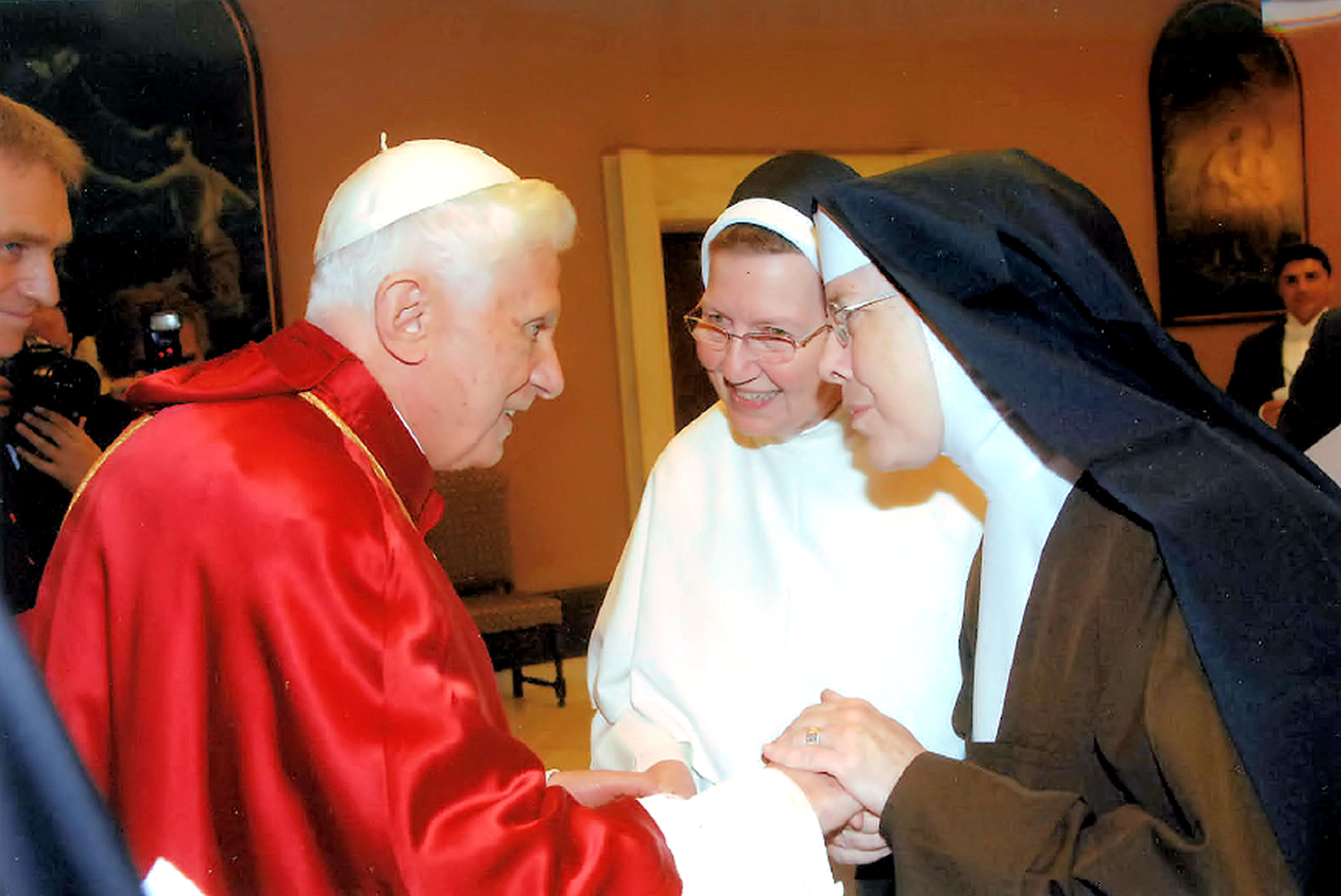 CMSWR Reverend Mother Superior meets with Pope Benedikt XVI in the Vatican.